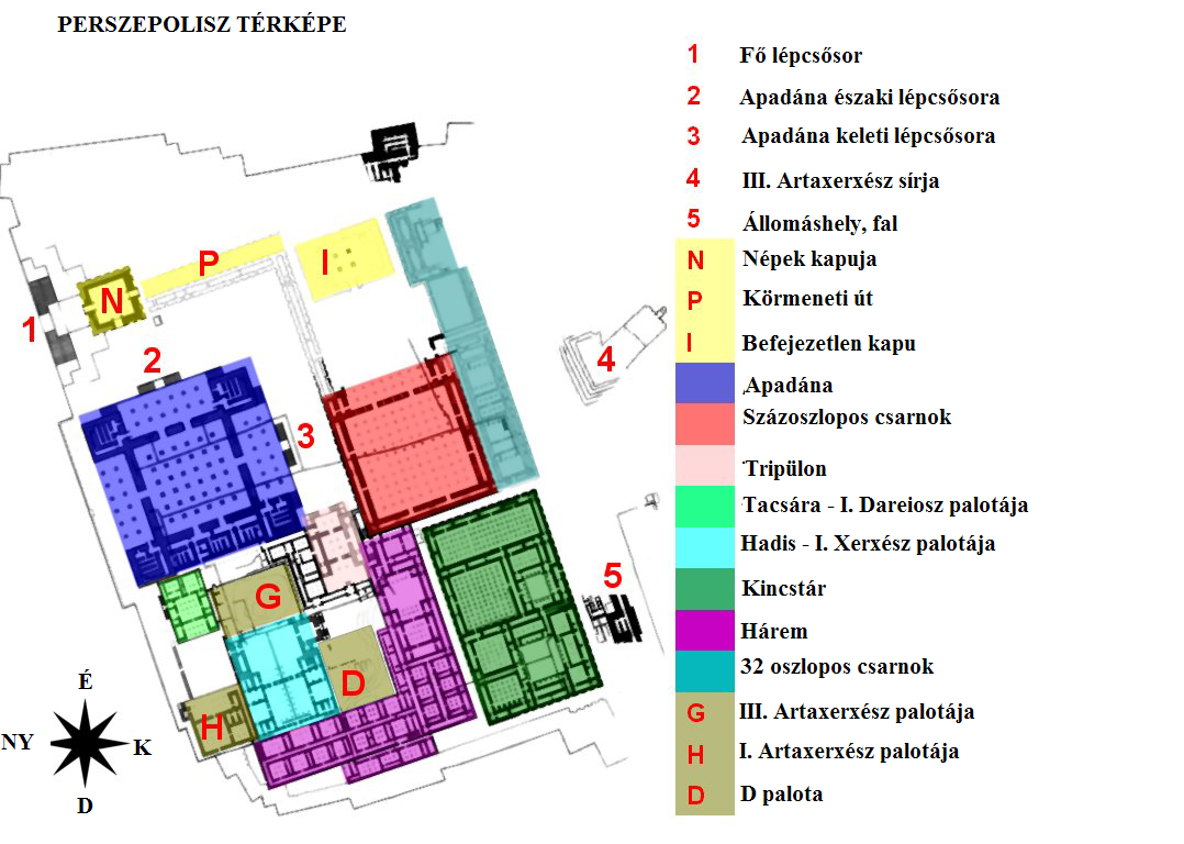 Persepolis